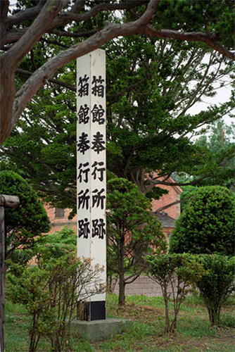 Site of former Hakodate Bugyōsho 箱館奉行所跡